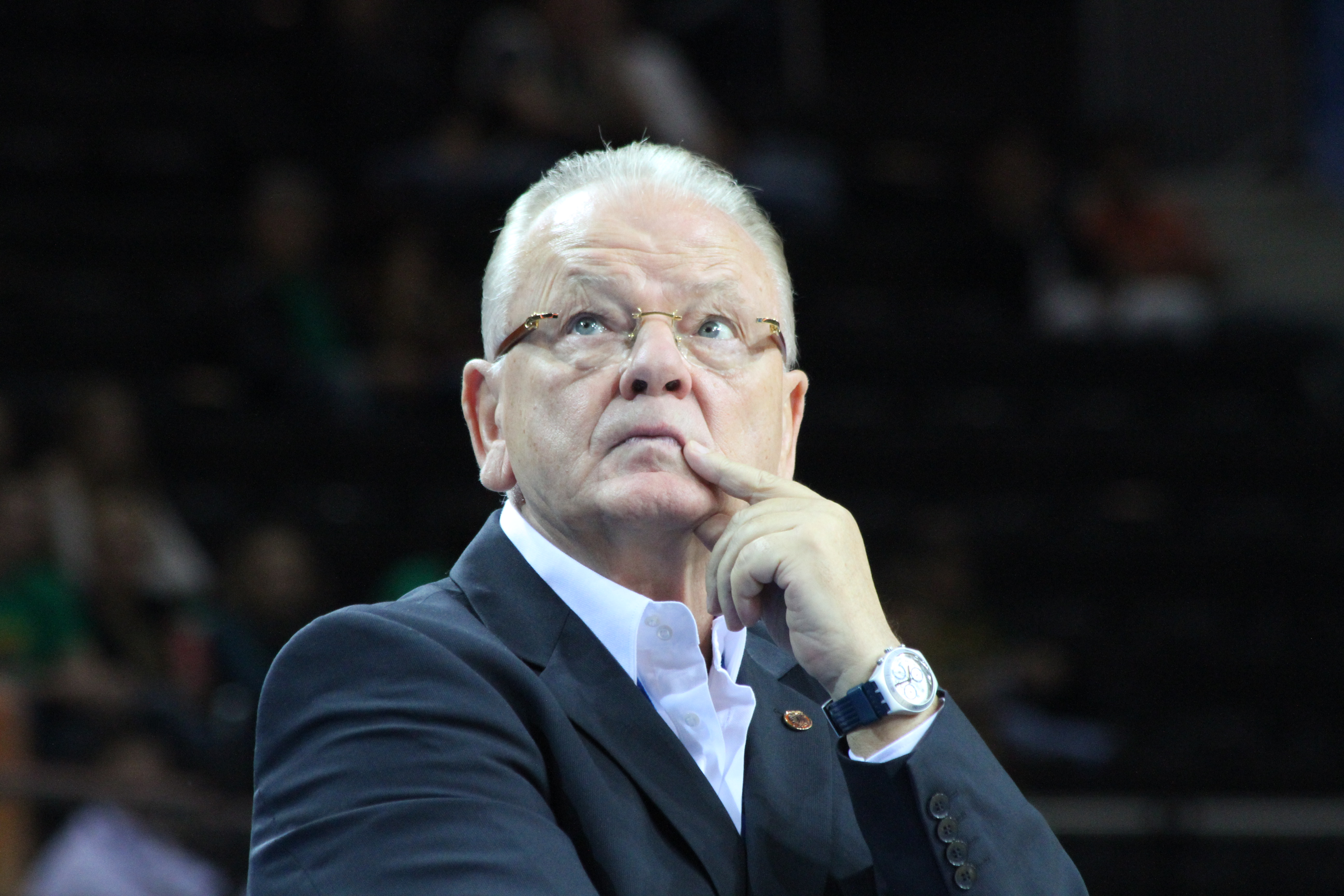 Dušan Ivković at EuroBasket 2011